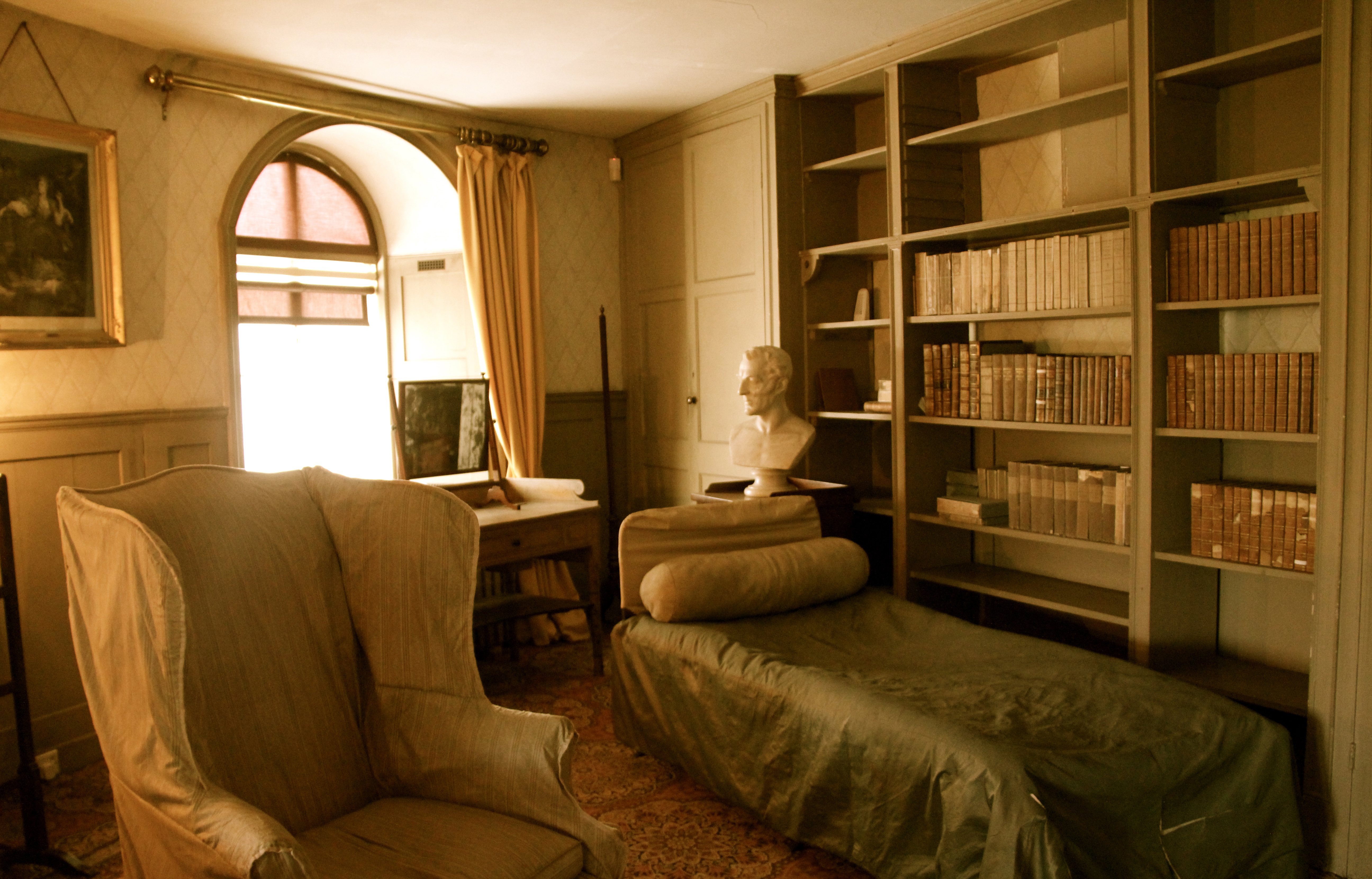 Duke of Wellington's room, Walmer Castle; trimmed from original